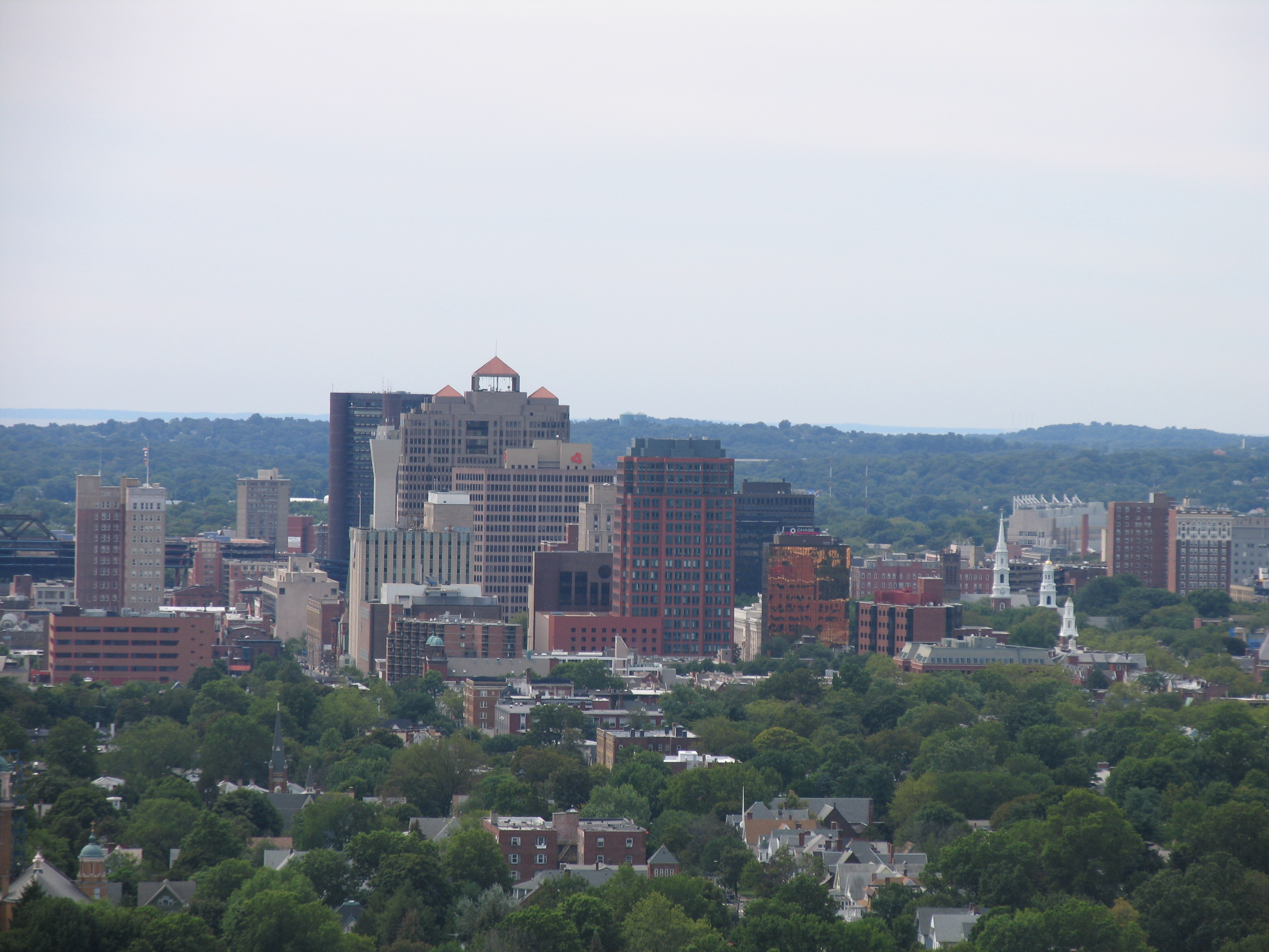 New Haven, Connecticut skyline from East Rock